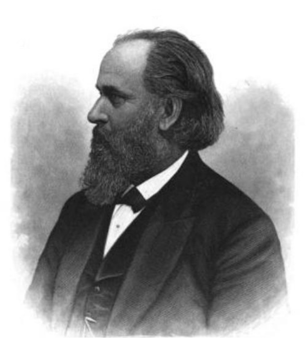 Rotogravure of a photograph of landscape architect Adolph Strauch taken about 1879.